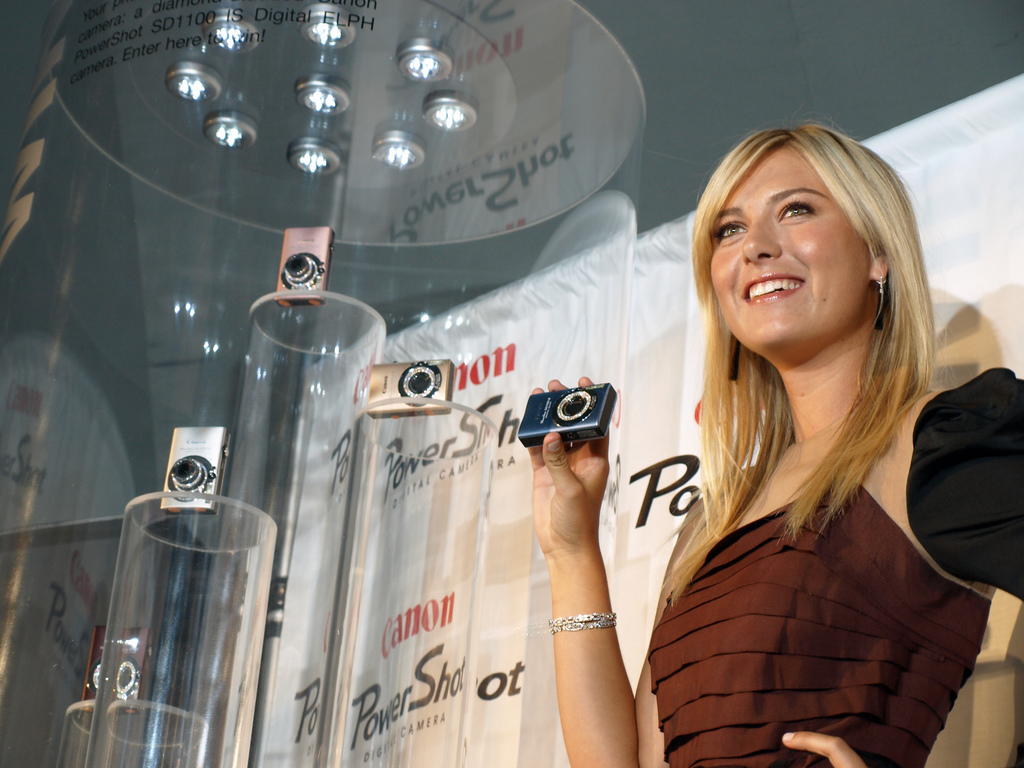 Original Story here: My story: As my last story for my internship at PC Magazine, I went to South St Seaport to shoot Maria Sharapova's official unveiling of her Canon Powershot Diamond lineup that people could win through a contest on Canon's website. The other photographers next to me were from NY Daily News, Newsday, AP, Getty, NY Post and I believe the NYTimes. And they were all using Canons so it felt odd for me to be the only guy there using Olympus on the front lines right in front of her. What made me really happy though was the fact that the Post photographer kept saying that I wasn't allowed to stand next to him because he didn't have enough room to take his shot. The Canon reps fixed that and let me stay there because I had previous reservations. I took my flash off because my mentor (Pulitzer Winner John Williams at Newsday) taught me to shoot that way. But I synched my timing to shoot with the other photographers. To make a long story short--the only photos of the event that ended up being published were mine and AP's. The Post and Daily News used AP's. But mine...were all over the net. It made me quite happy and made me realize that Olympus can hold its own against the bigger guys in terms of getting the right shot. That being said though, I still plan to move back to Canon (I used to use them) because they do better in low light and give me the features I need. Also seen here on my article, "8 Great Tips to Get More Out of Your Camera Batteries" And here